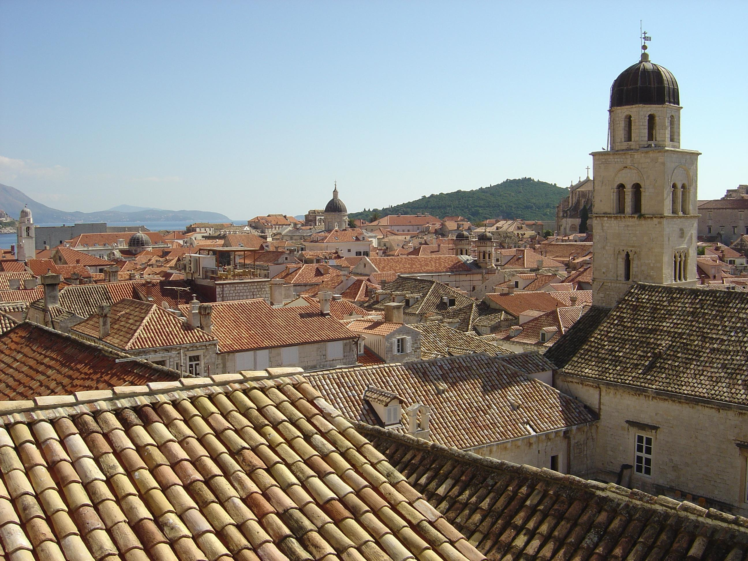 the downtown of Dubrovnik, Croatia.